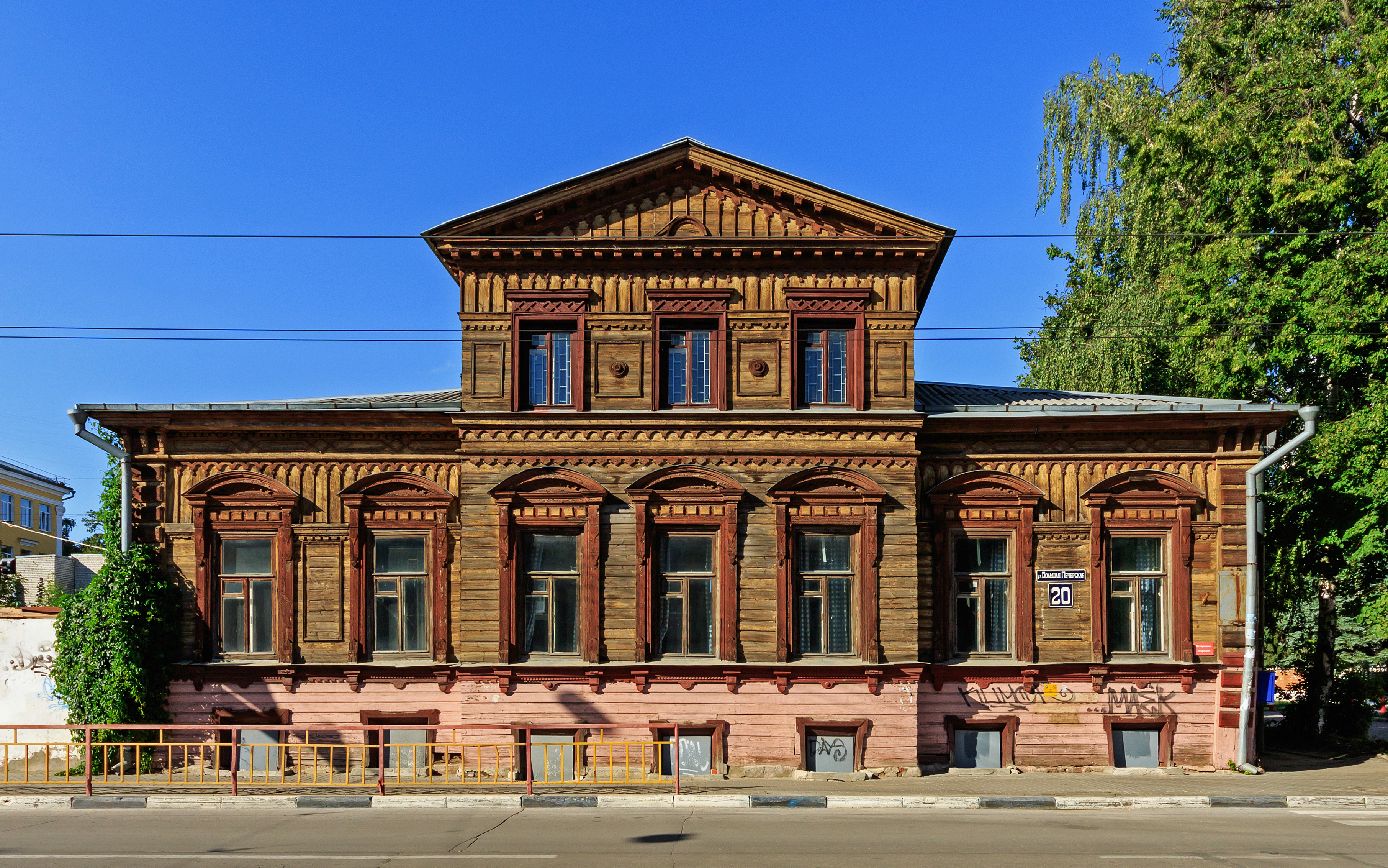 Neustroevi-Bashkirov mansion from the beginning of the 19th century in Nizhny Novgorod , Russia